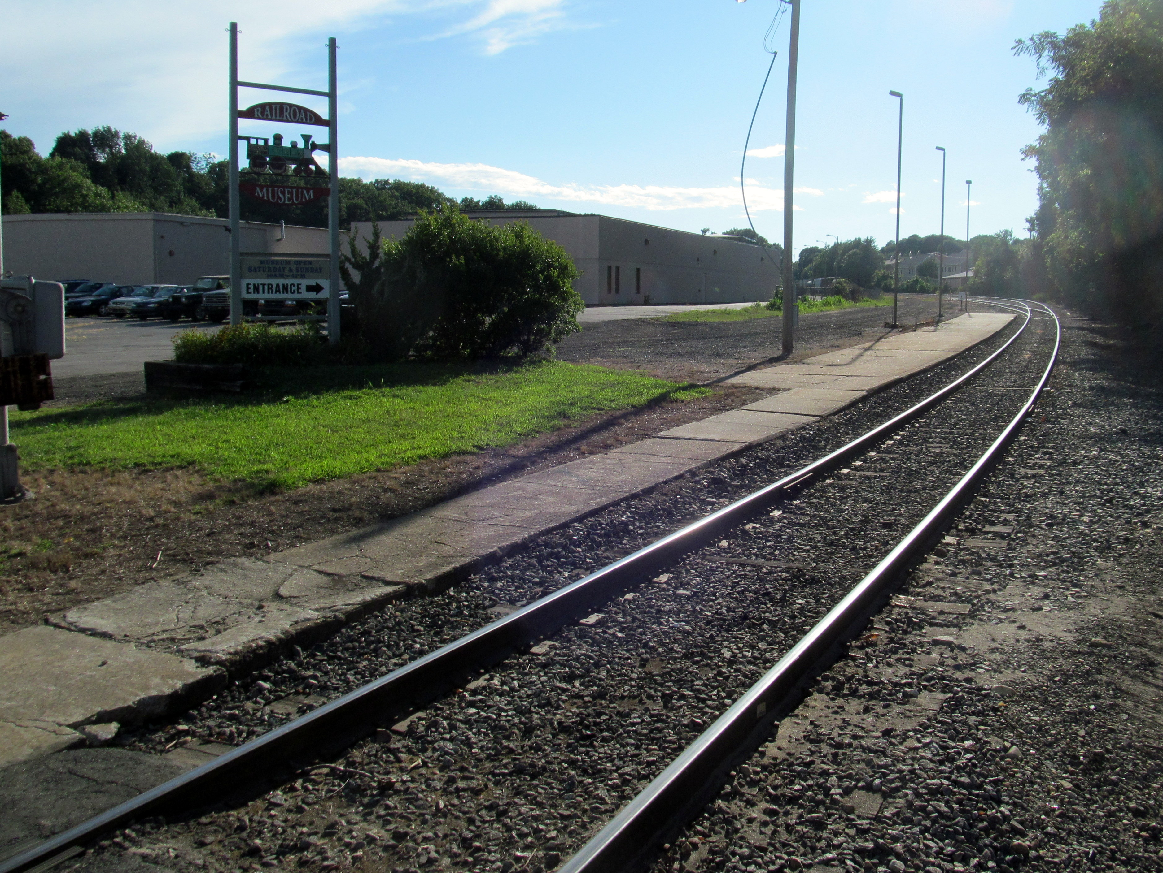 This concrete platform off Bridge Street in Willimantic, Connecticut was a station stop for Amtrak's Montrealer from 1991 to 1995.